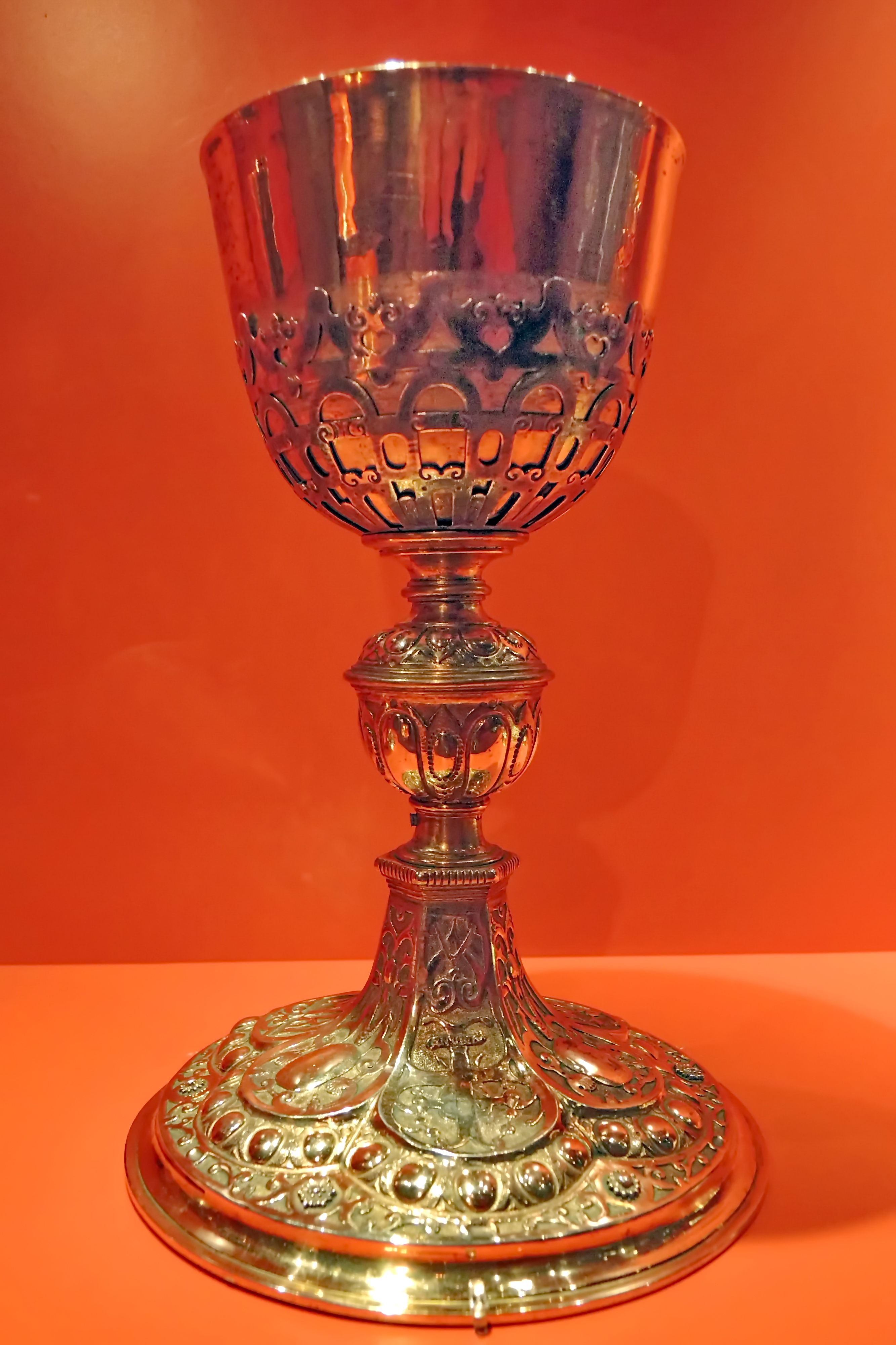 Collection of the Stadtmuseum in Rapperswil (Switzerland): church treasury of Stadtpfarrkirche St. Johann. Messkelch, Spätrenaissance, 1611, vergoldetes Silver, vermutlich Konstanzer Arbeit, mit Lilienkreuz auf dem Sechspass, reicher Ornamentik, Monogramm 'IHS' und 'Maria'.